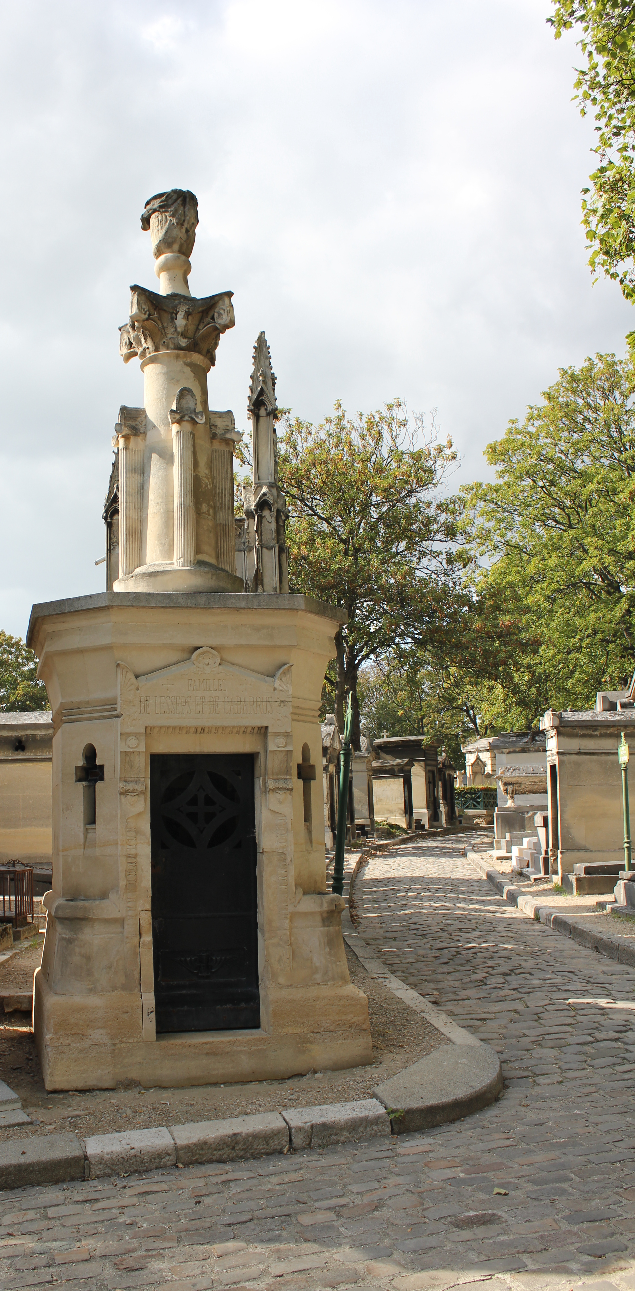 Ferdinand de Lesseps's tombstone in Père Lachaise Cemetery, in Paris.